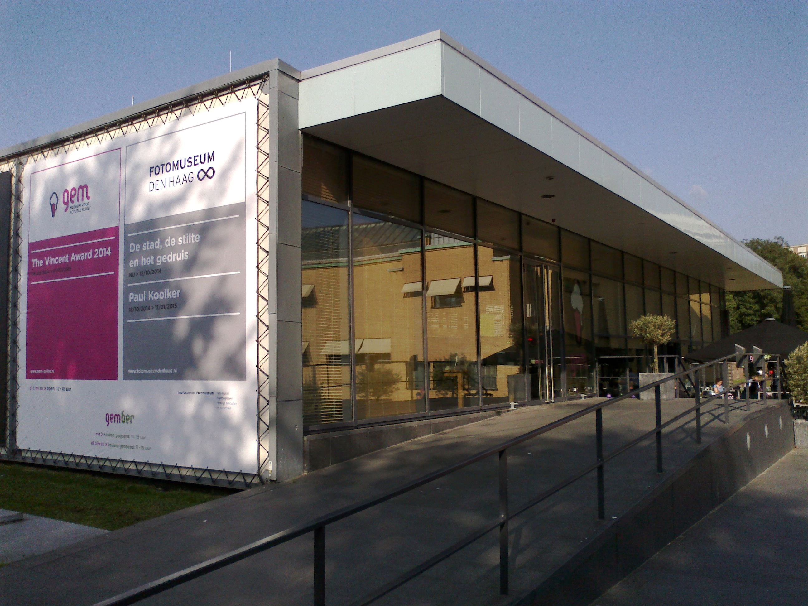 Part of the Photo Museum The Hague, the Netherlands. Main entrance.